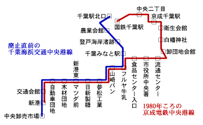 Chuoko line, a abolished bus line in Chiba